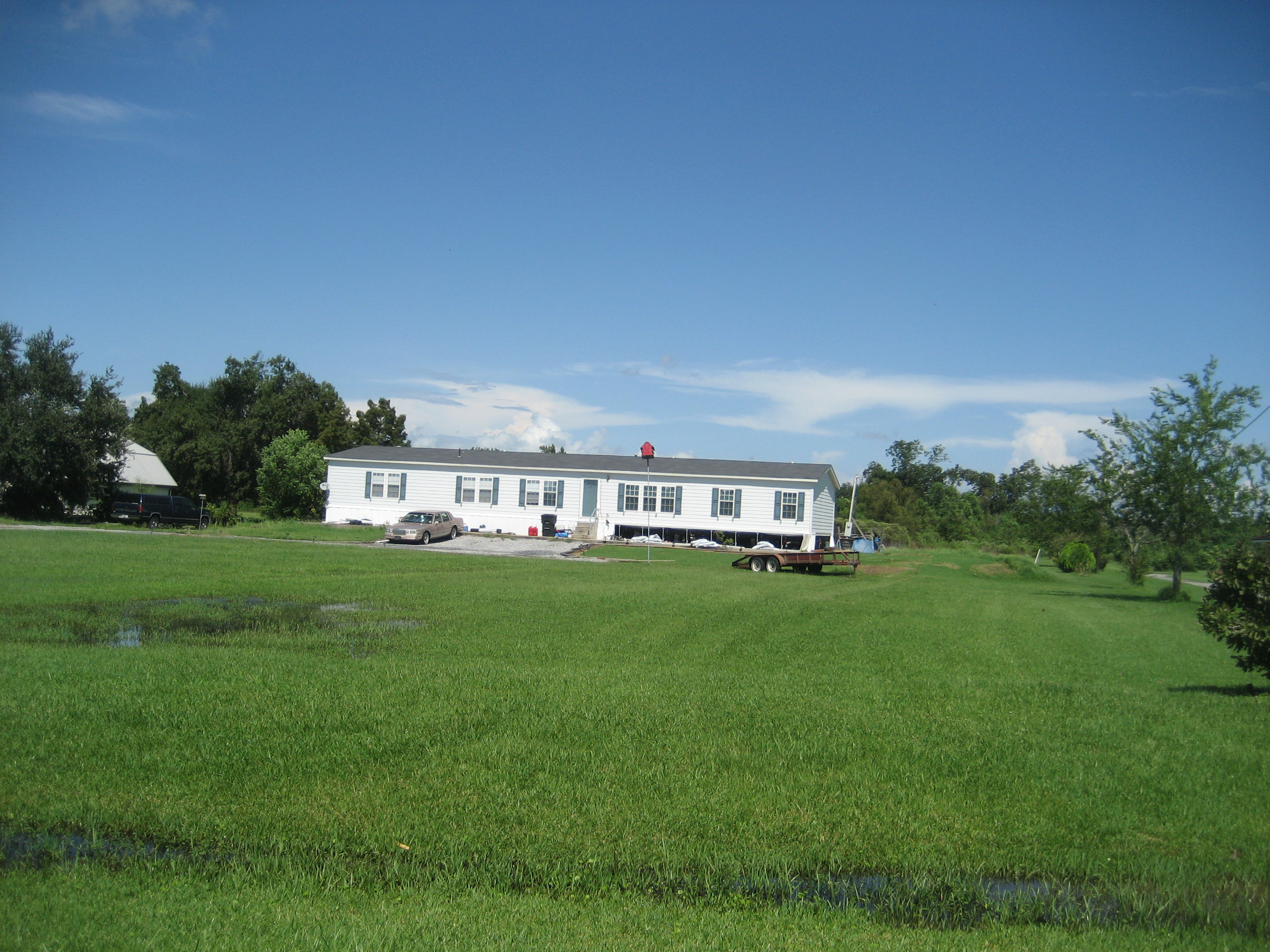 Wills Point, Plaquemines Parish, Louisiana.